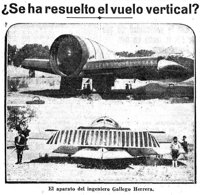 Photo in a spanish newspaper ,"El Heraldo de Madrid" at 23 november, 1935. The photo is about a prototype of new aircraft from the spanish engineer Gallego Herrera.